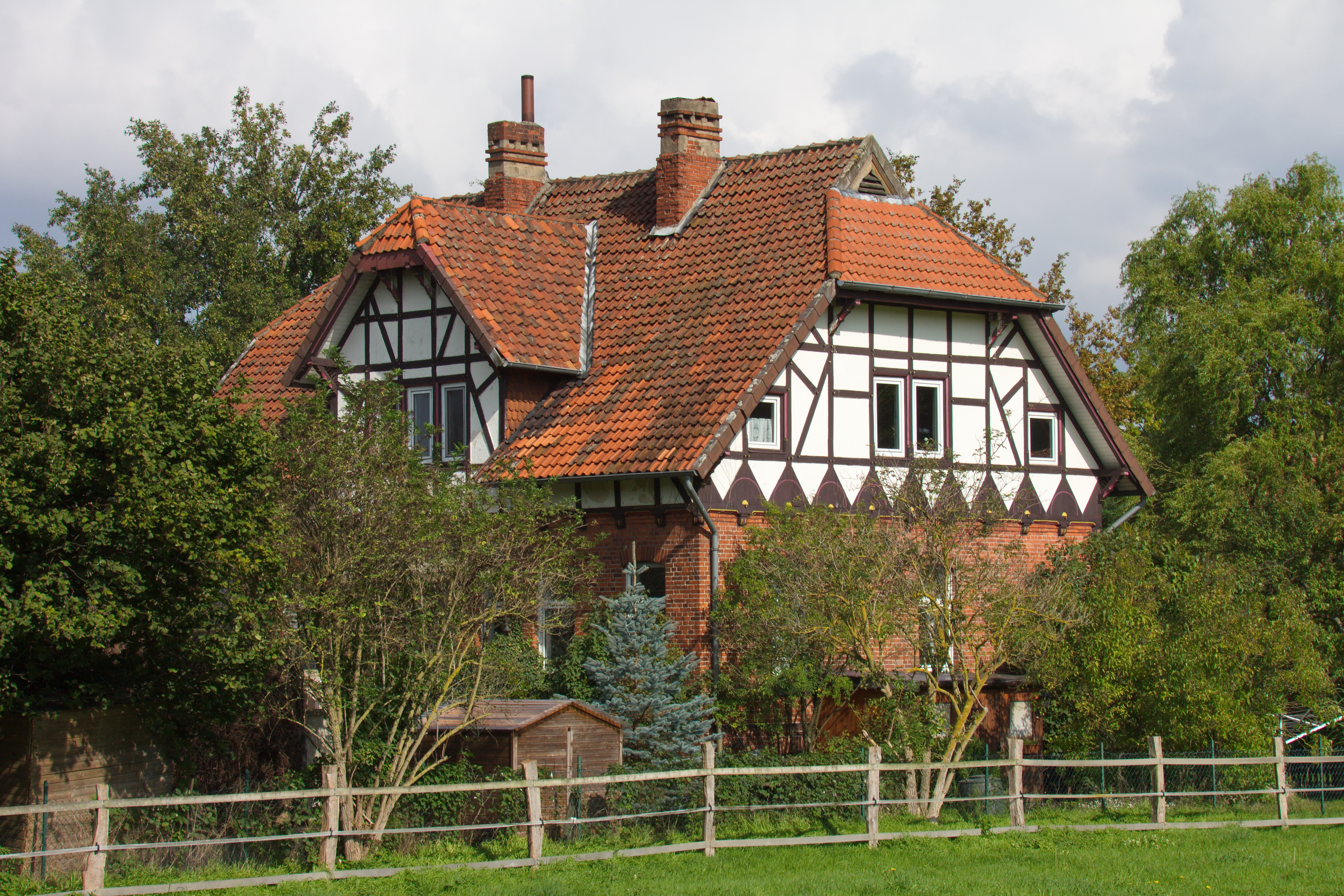 Hof Wagenzeller Straße 18 in Kaltenweide (Langenhagen), Niedersachsen, Deutschland